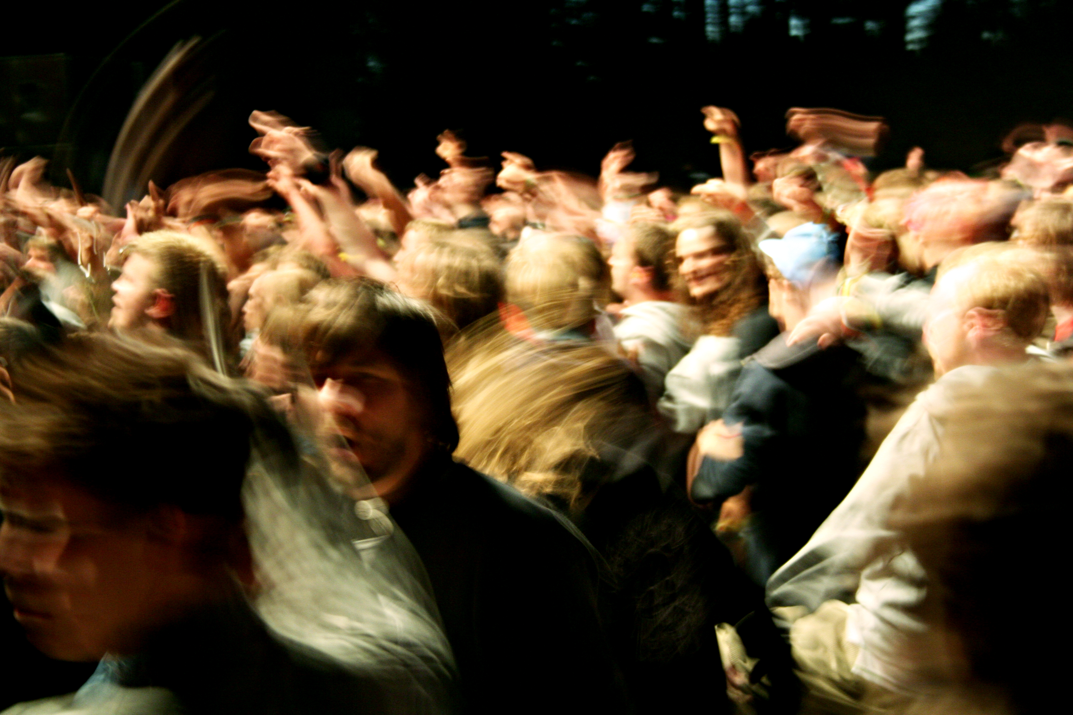 Circle pit at a Hatebreed concert at Tromoy, Norway during the Hove Festival in June 2007.